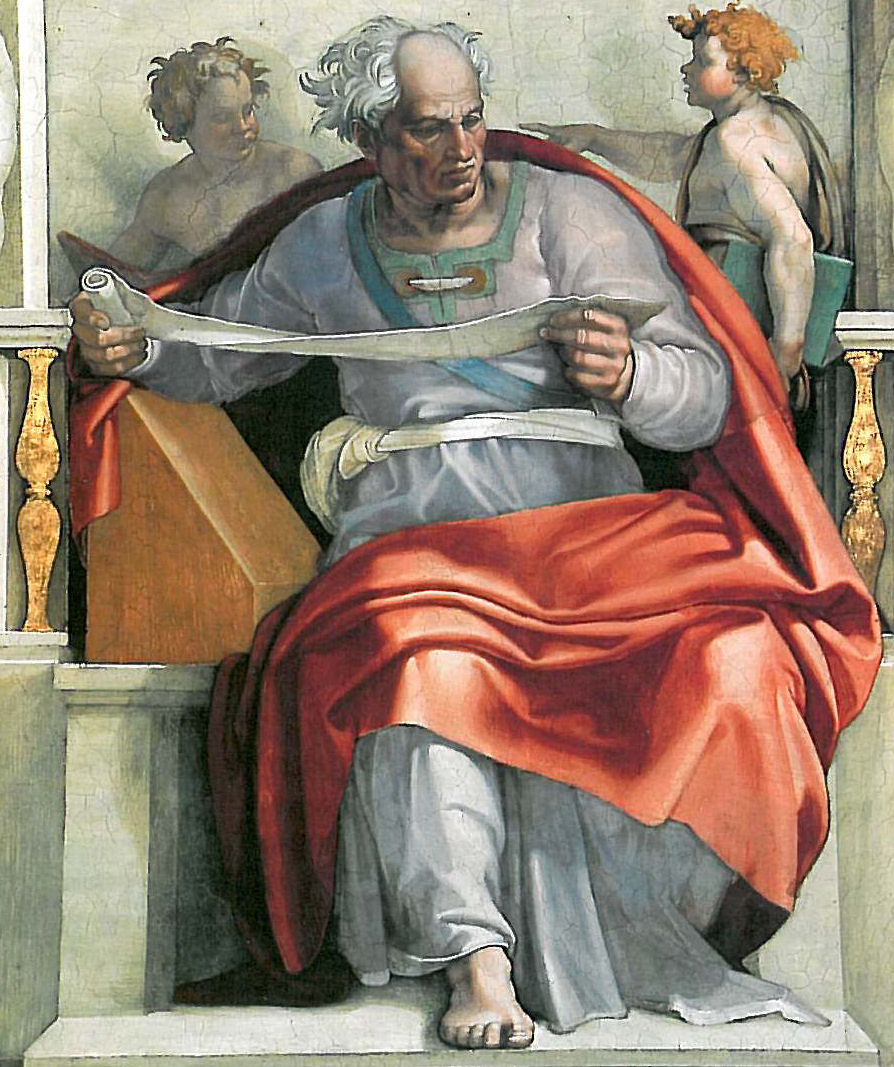 painted by Michelangelo and his assistants for the Sistine Chapel in the Vatican between 1508 to 1512